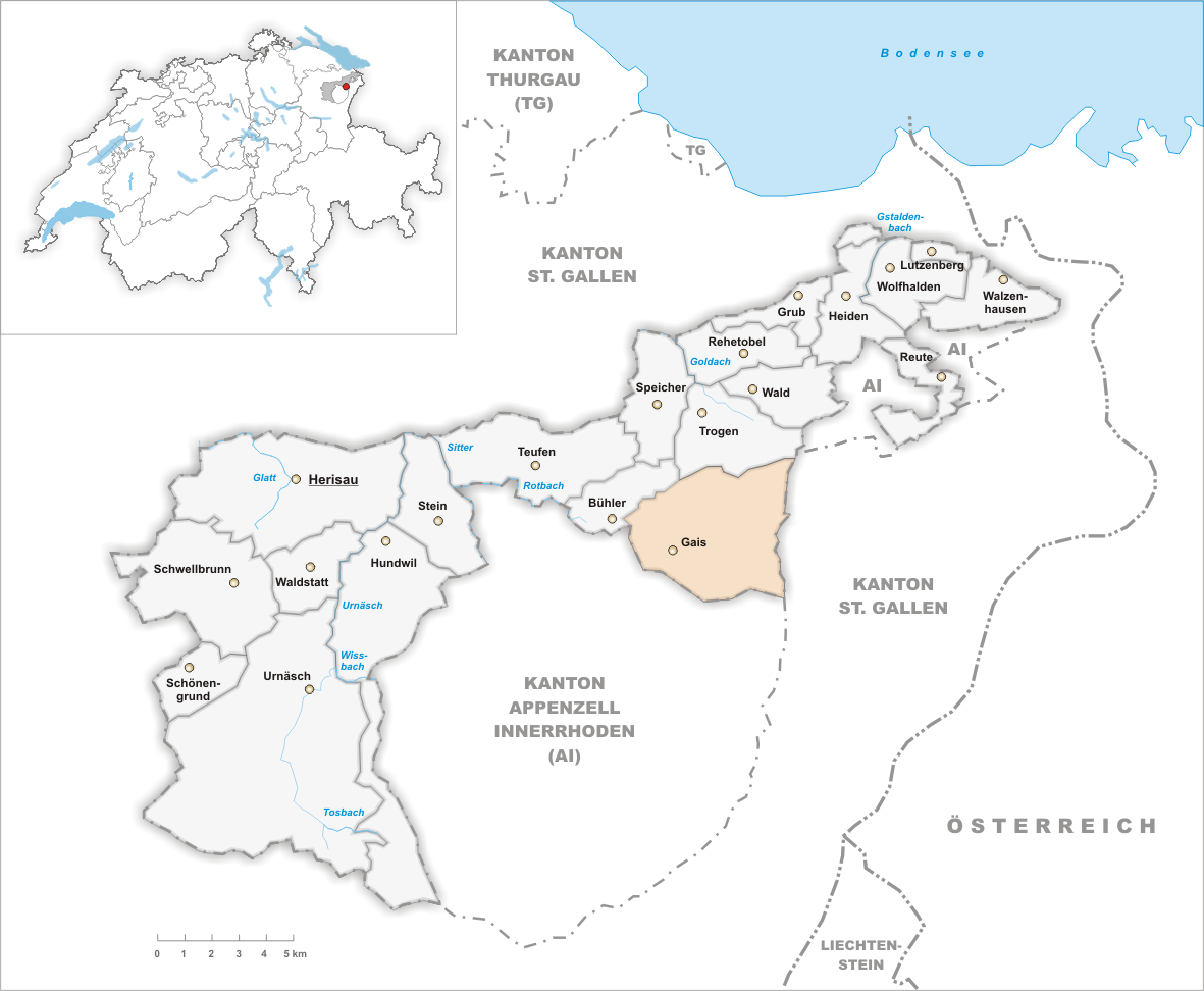 Municipality of Gais